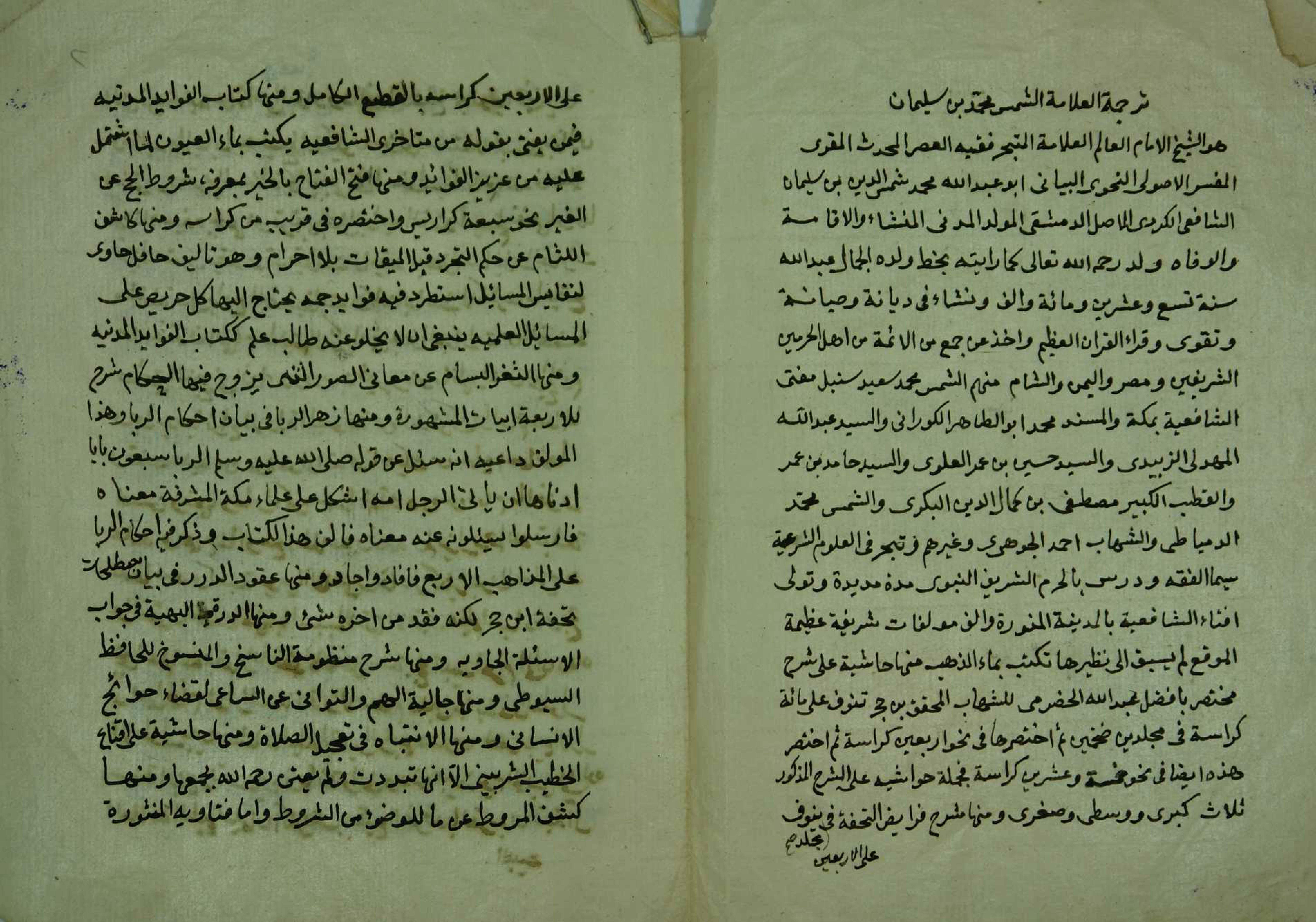 A well-written Arabic manuscript written in the 18th century, from King Saud University, Incomplete in the end, normal naskh ,about biography of Muhammad ibn Sulayman al-Kurdi (1714-1780), the text contains also some answers to Fiqh questions